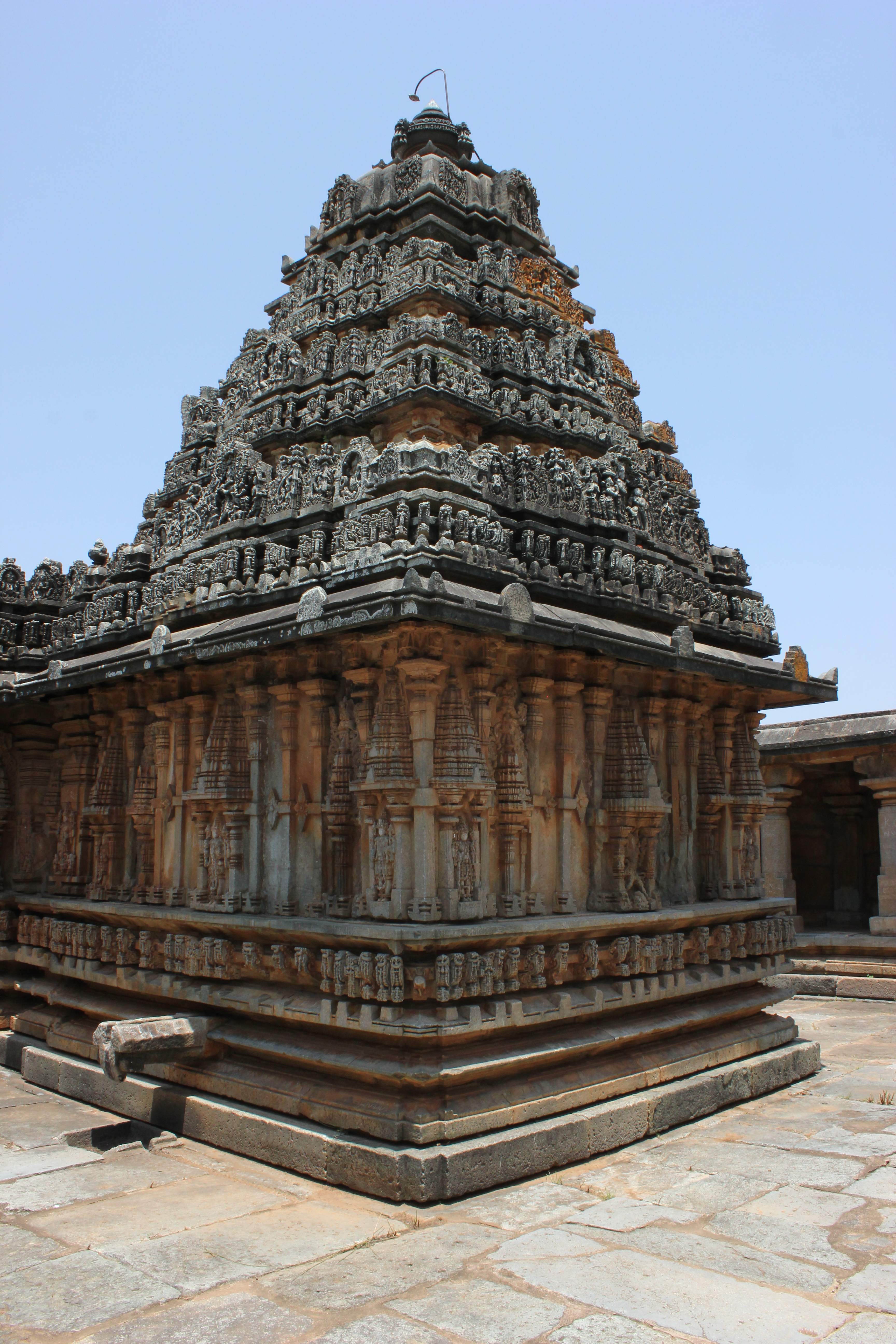 This photo was taken by me (Dinesh Kannambadi) at the Chennakeshava temple (also spelt Chennakesava) in Hullekere, Hassan district, Karnataka state, India. It was built in 1163 CE during the rule of the Hoysala Empire King Narasimha I.